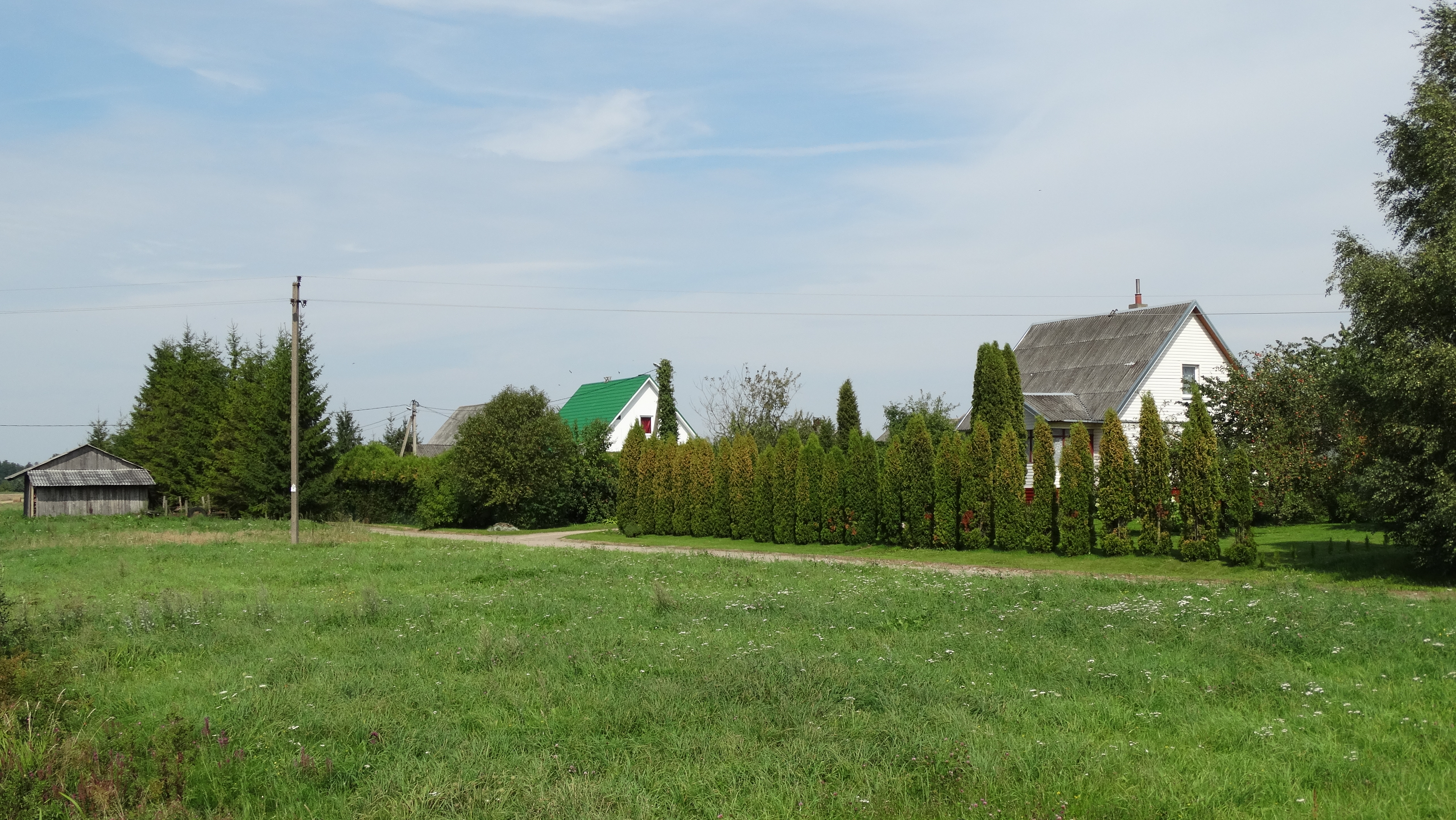 Akmeniškiai, Jurbarkas district Lithuania